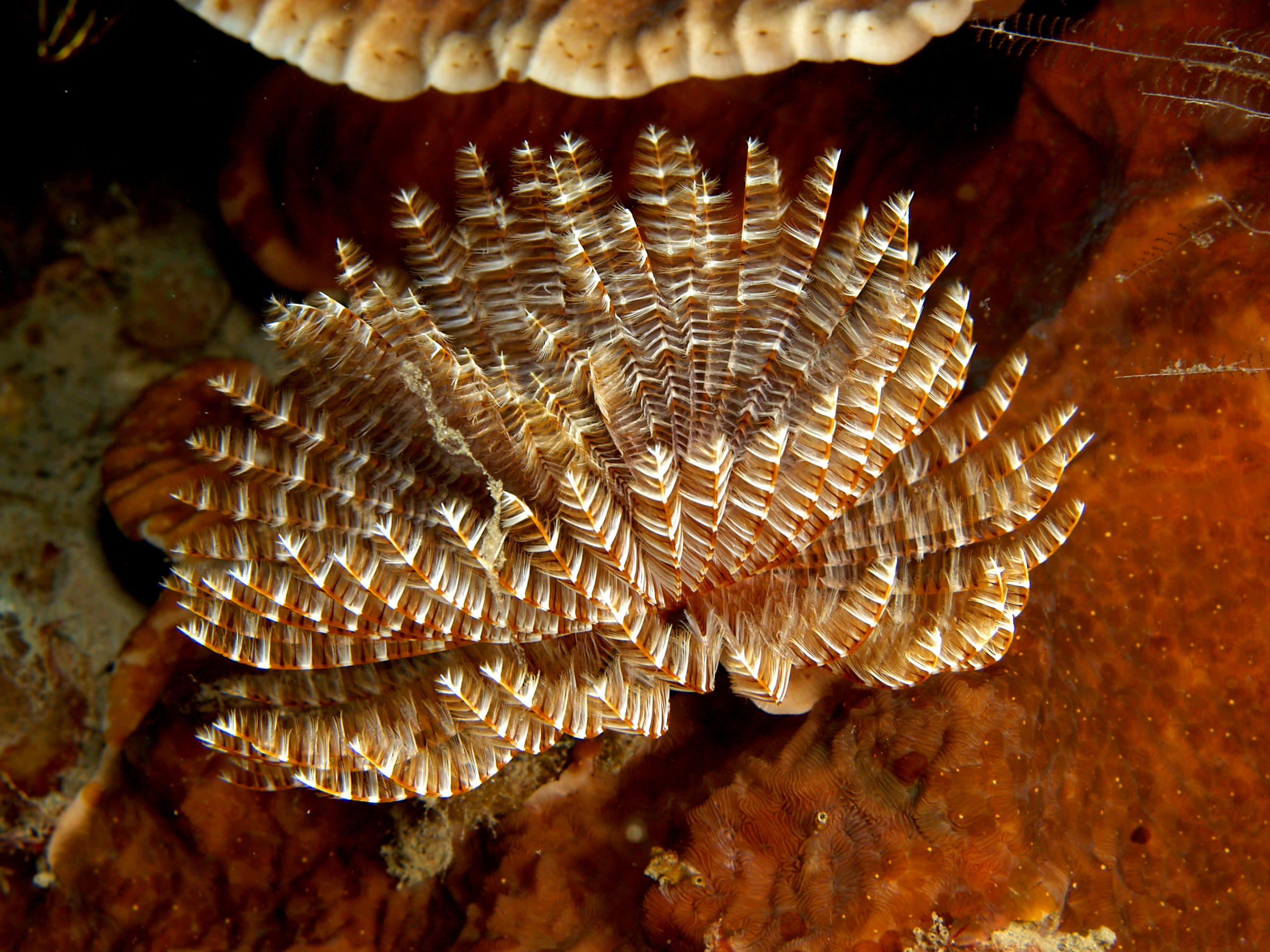 Sabellastarte indica Feather duster worm. These worms are very sensitive to movement in the water. If they feel threatened by sudden environmental changes around them, they will quickly retract their tentacular crown.